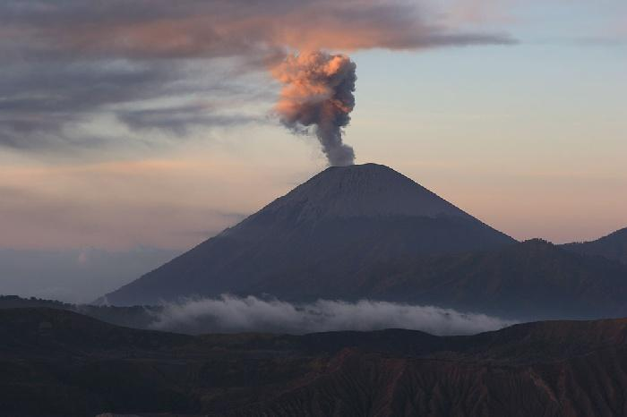 Volcano Semeru on Java, Indonesia